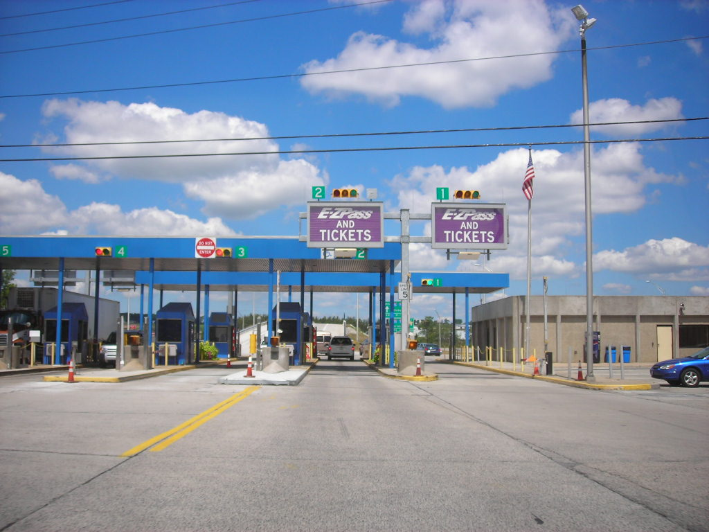 The toll booths at the Somerset interchange (exit 110) of the Pennsylvania Turnpike in Somerset, Pennsylvania.